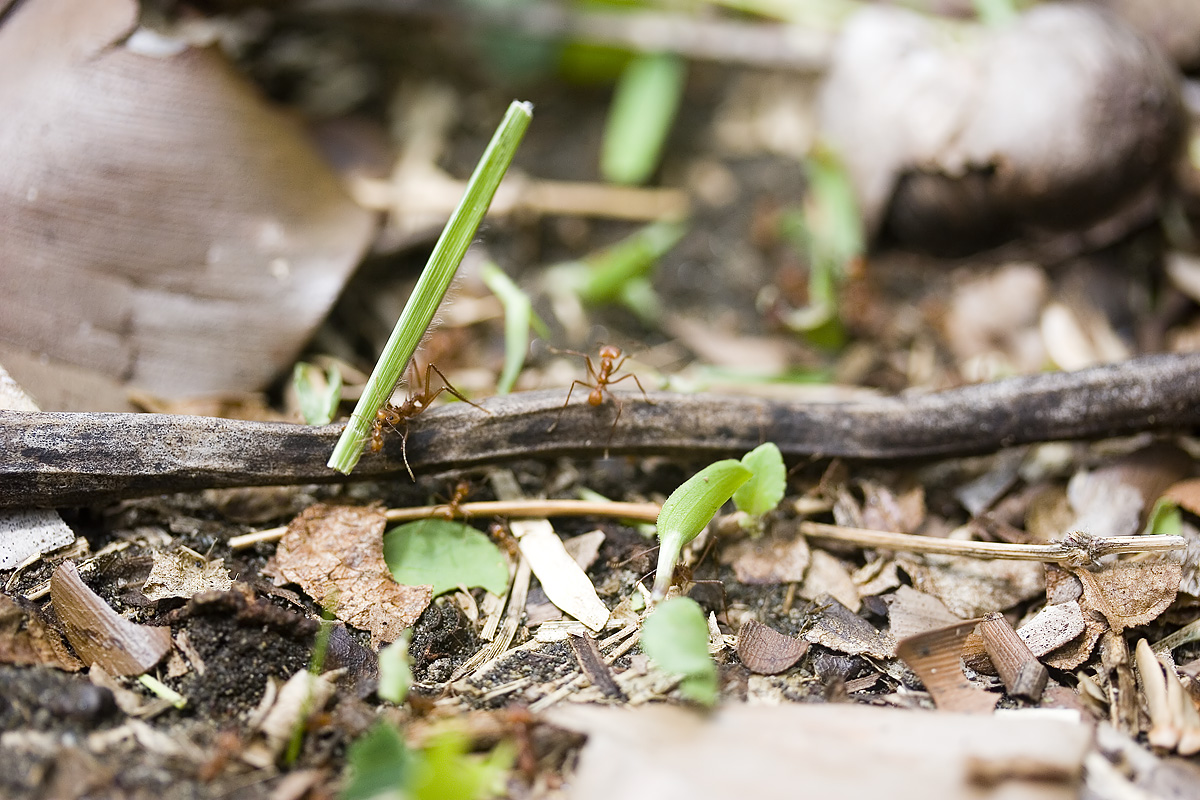 "Speak softly and carry a big stick" takes on a whole new meaning here. I wonder if that was the big-boss-ant.